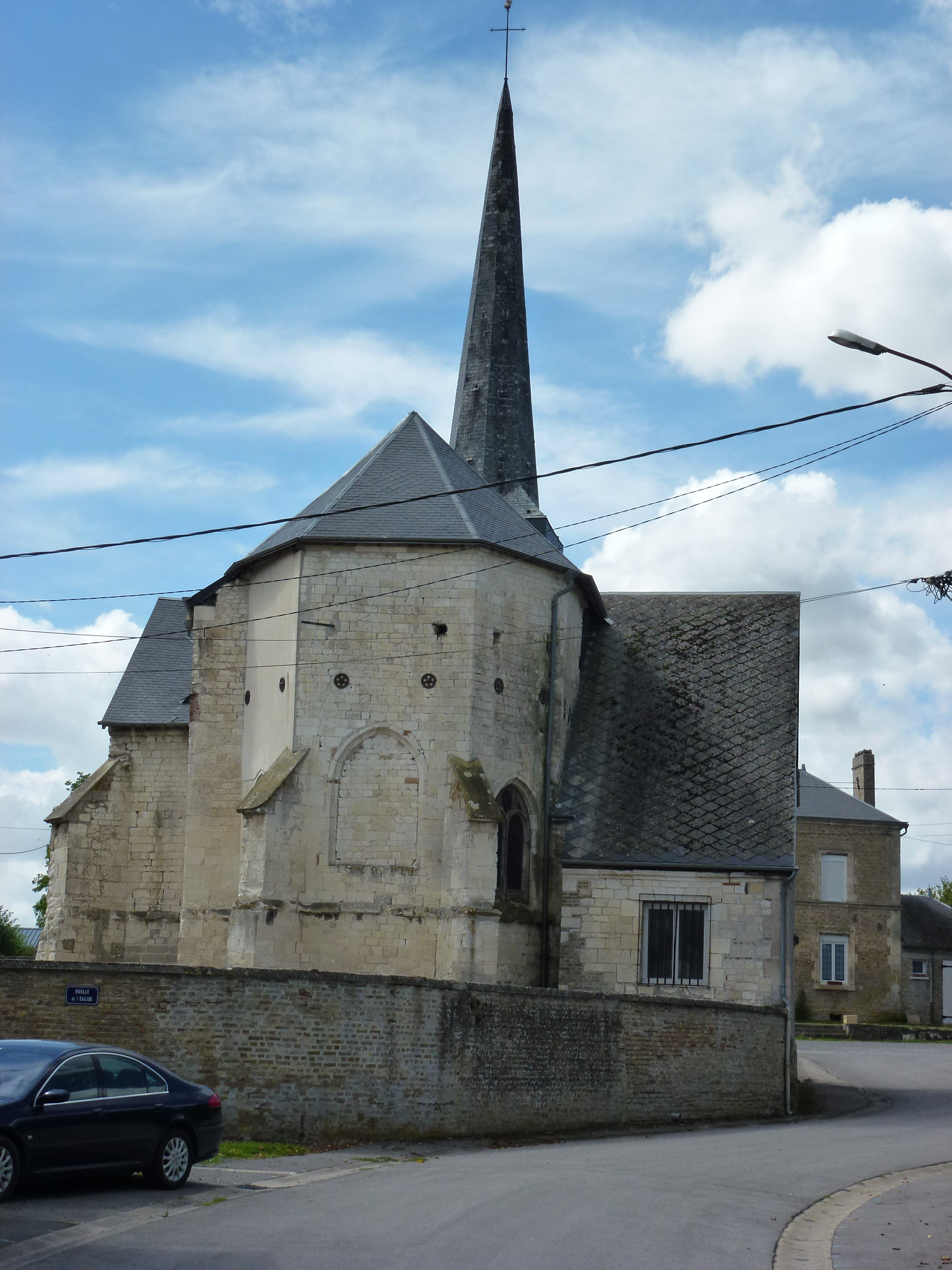 Écly (Ardennes) église, chevet